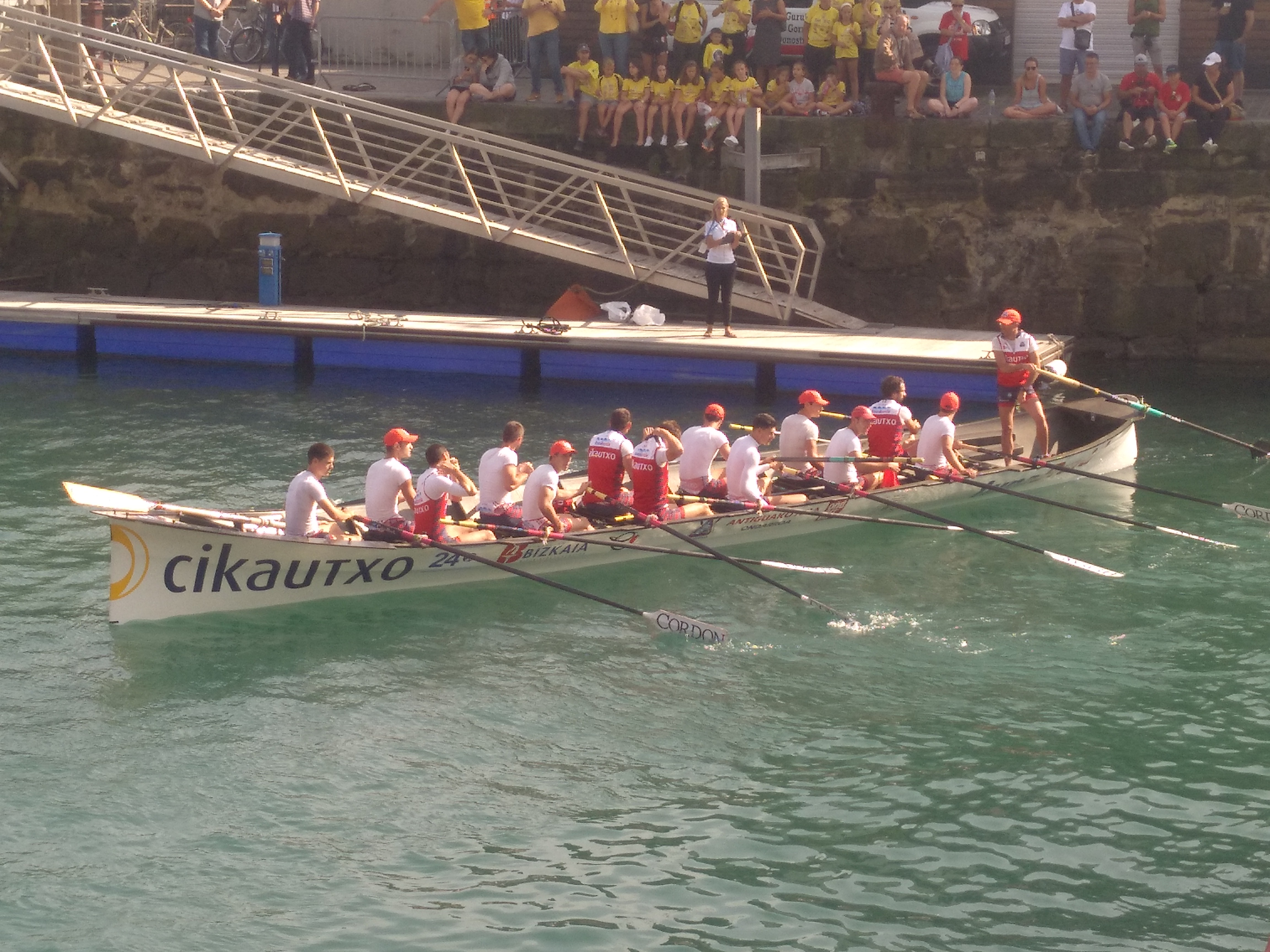 Ondarroa Arraun Elkartea, Flag of La Concha, 2018